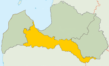 Latvia map - Zemgale